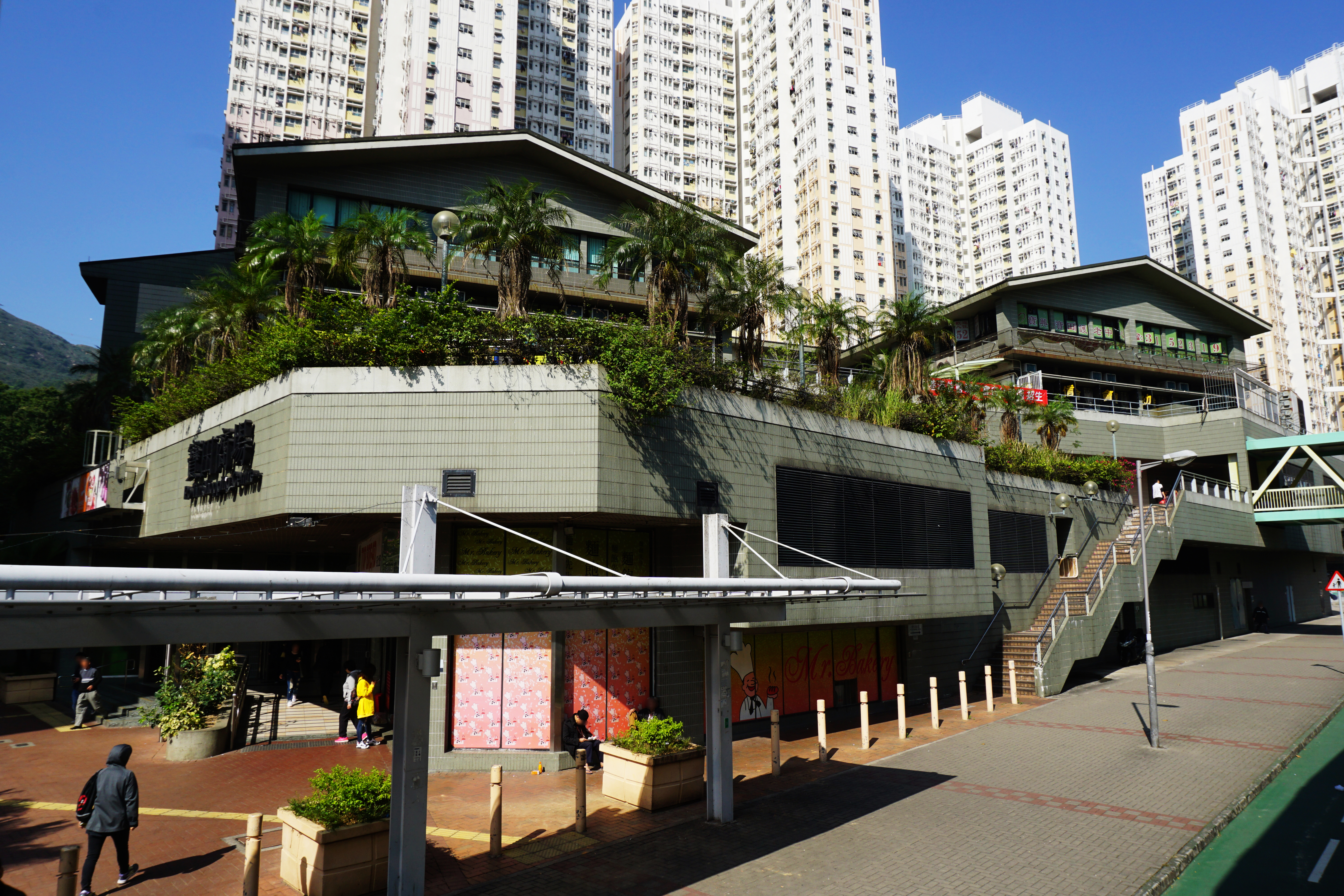 Po Tin Shopping Centre in Tuen Mun, Hong Kong.